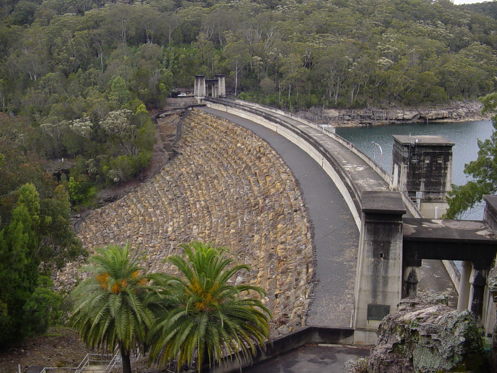 Avon Dam